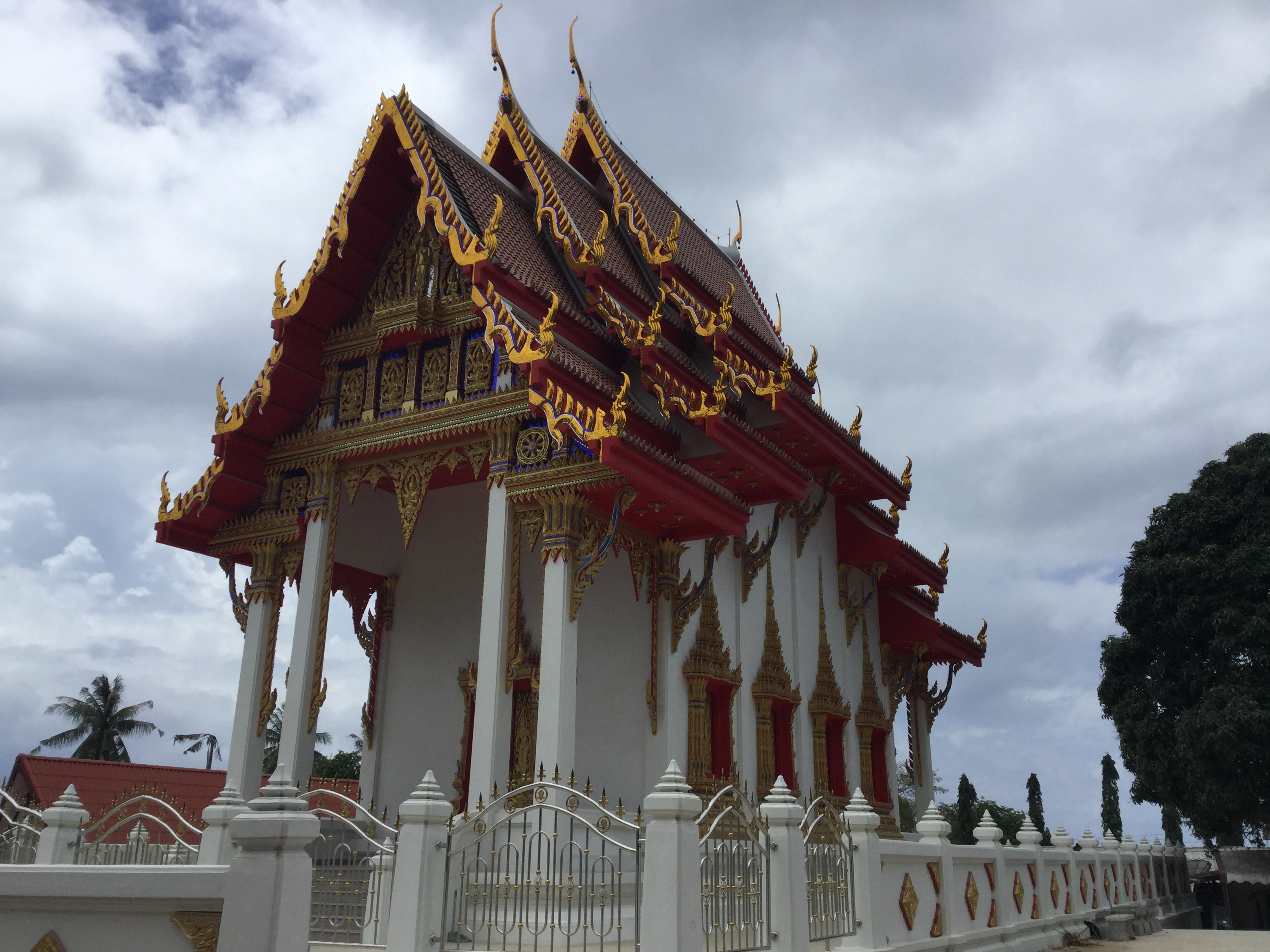 Wat Ko Tao 2016